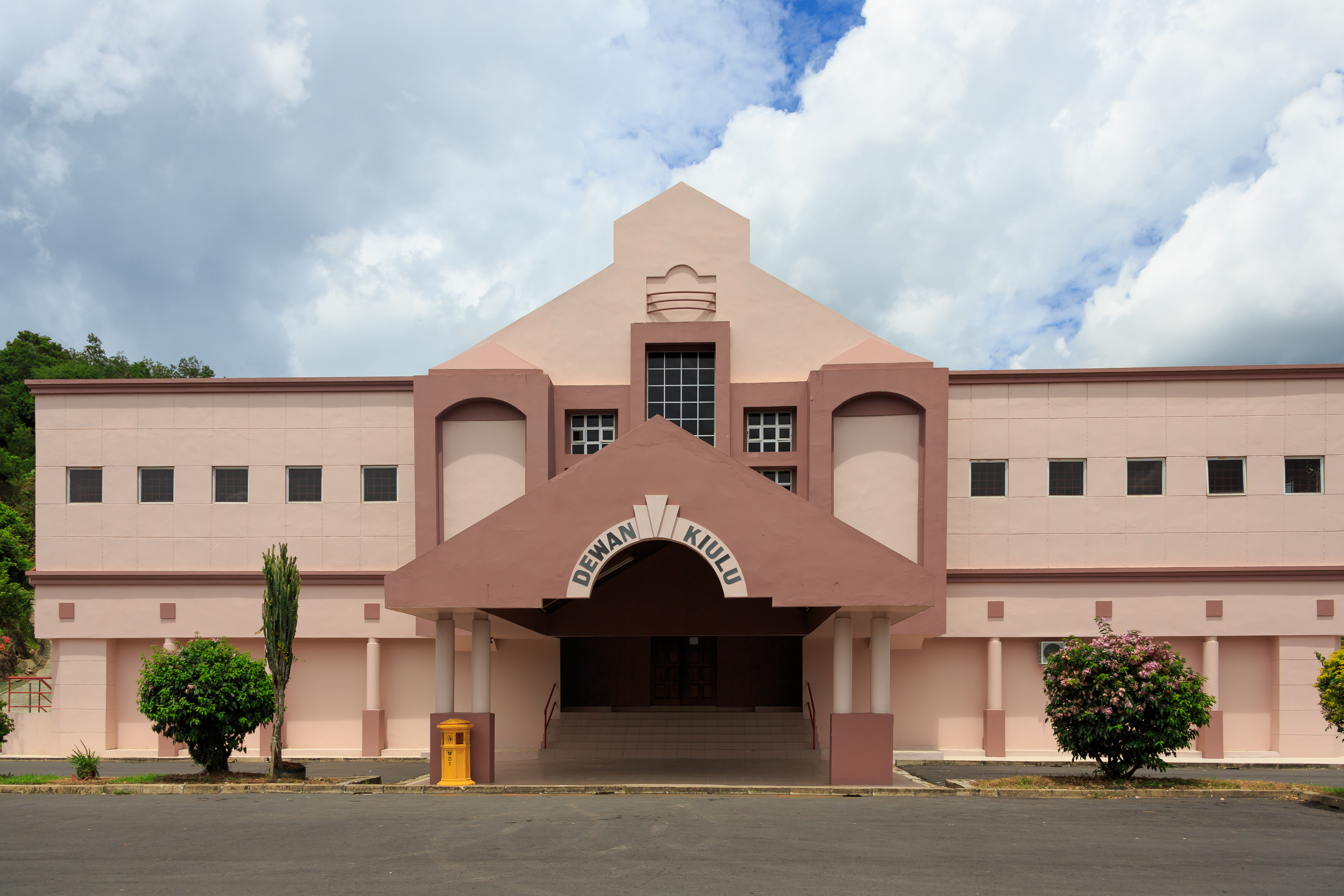 Kiulu, Sabah: Dewan Kiulu, the multipurpose hall of the township